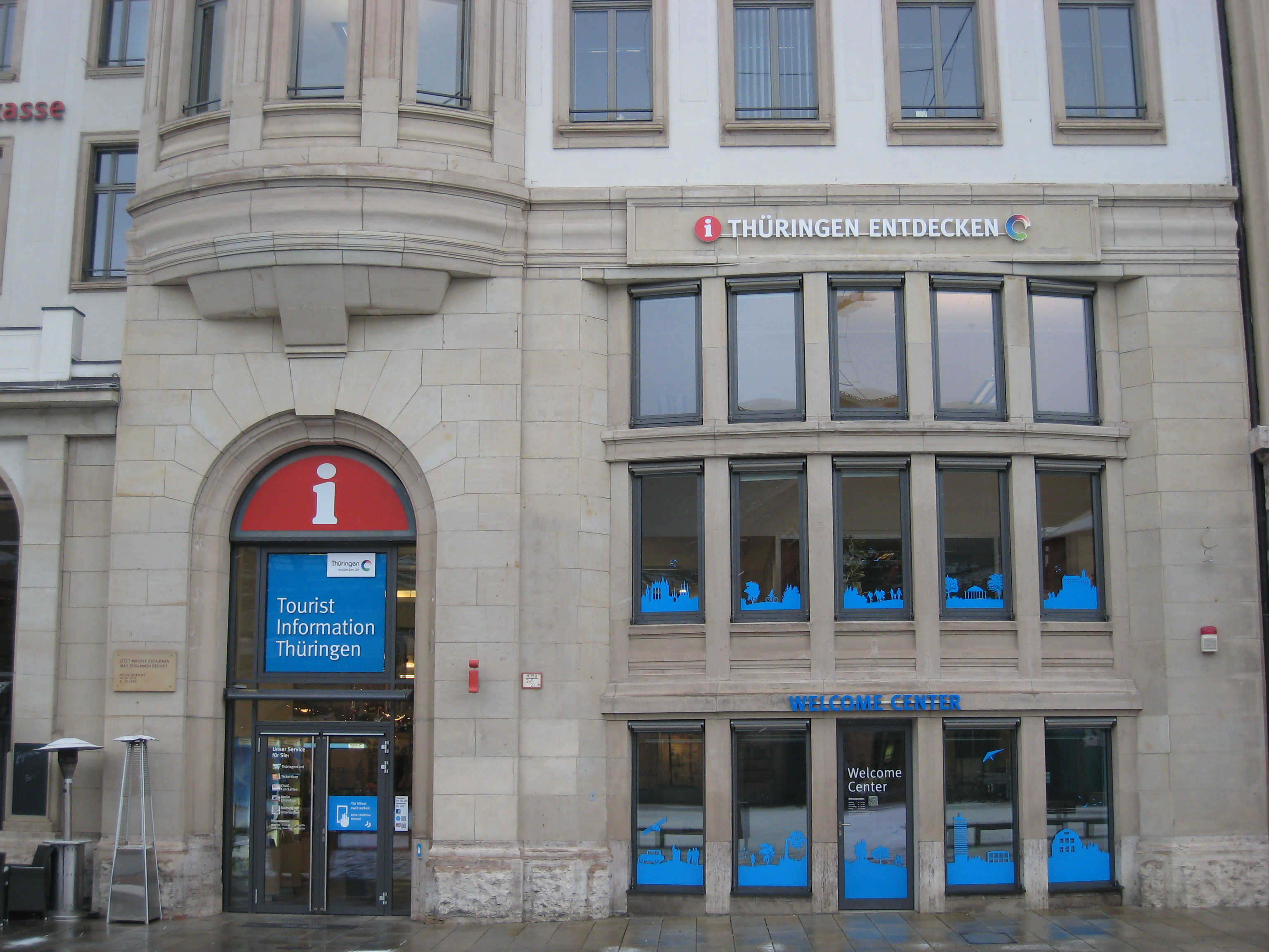 Tourist information Thüringen Tourismus, Willy-Brandt-Platz 1, Erfurt